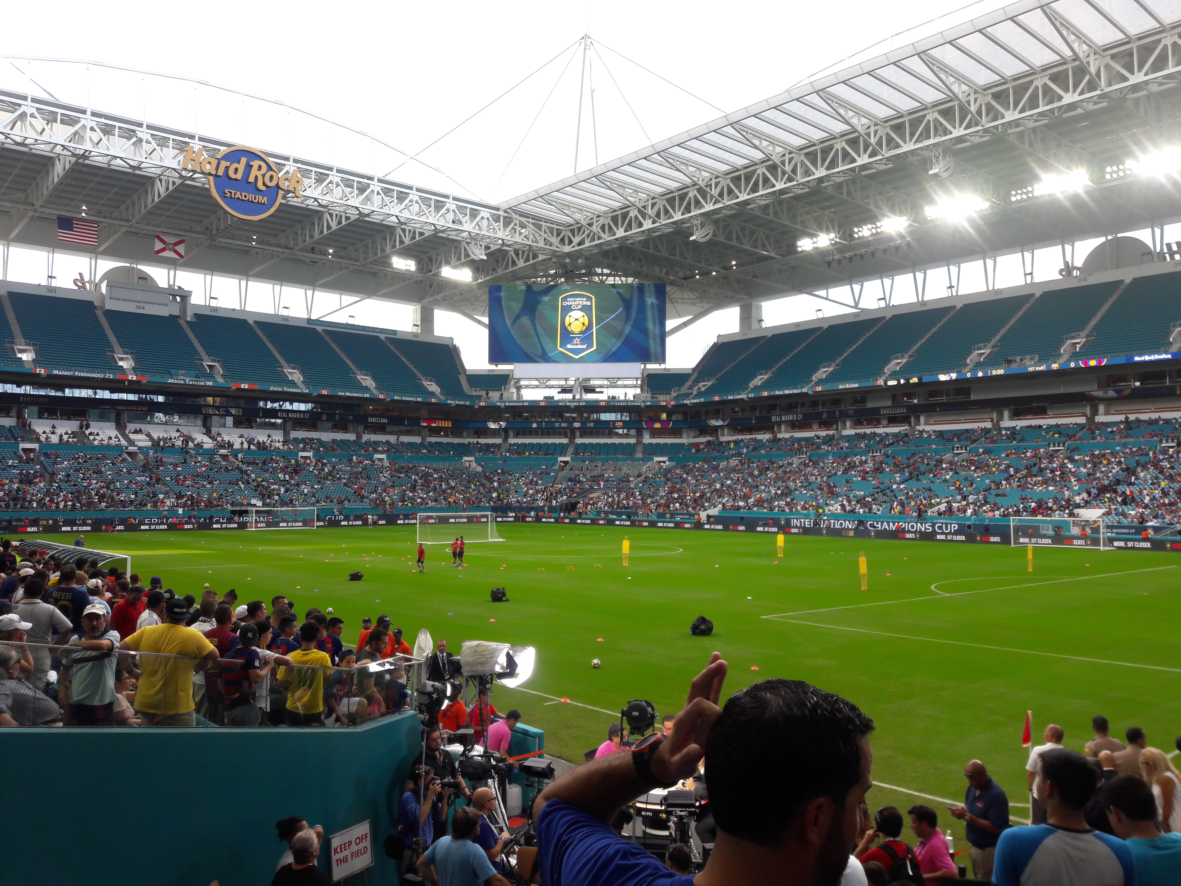 Inside view